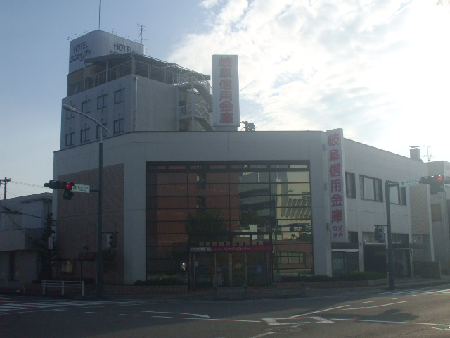 Gifu Shinyokinko Kani shop at Kani city pref Gifu.